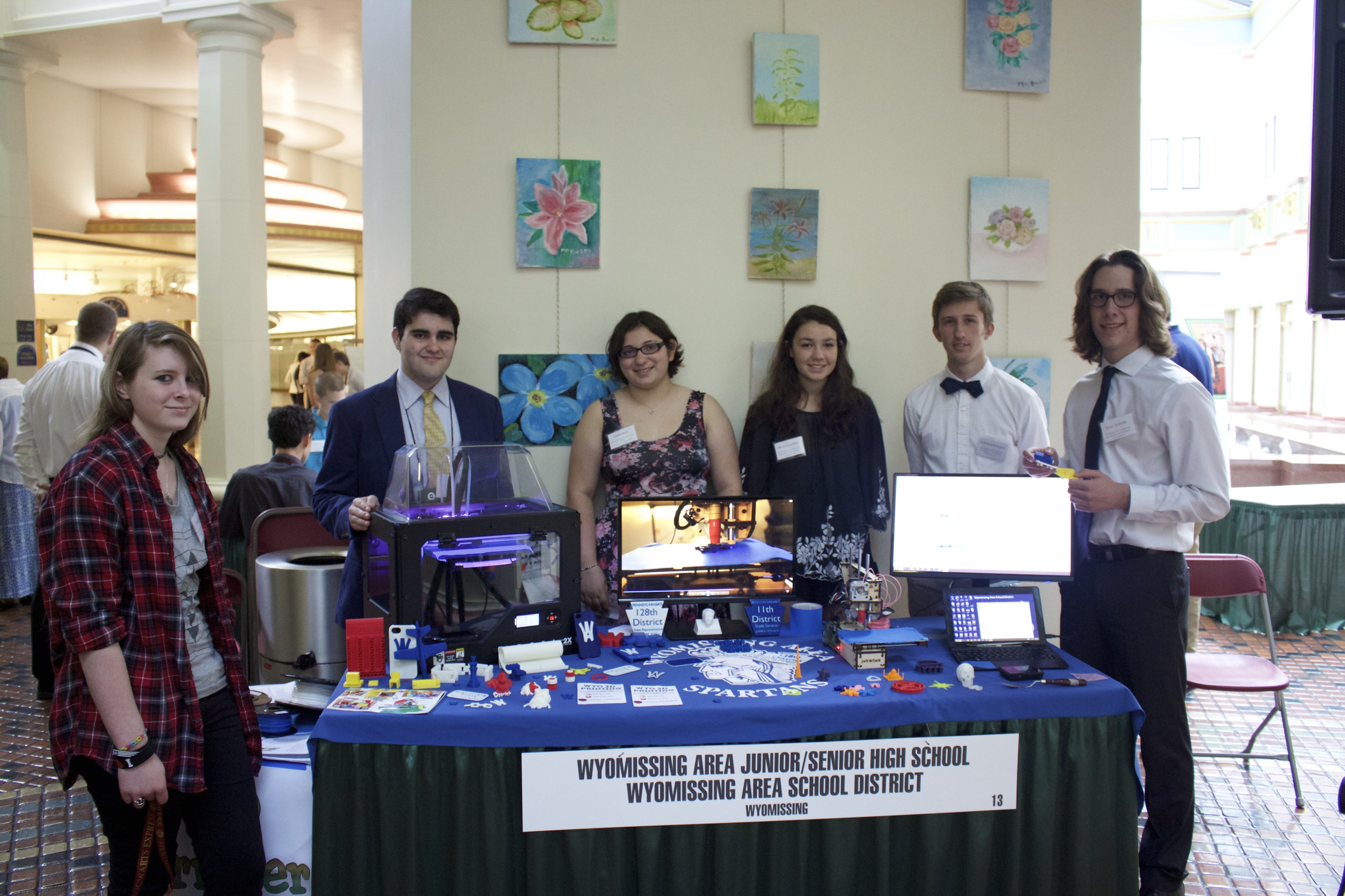 High school students present their use of 3D Printing at the PAECT conference/